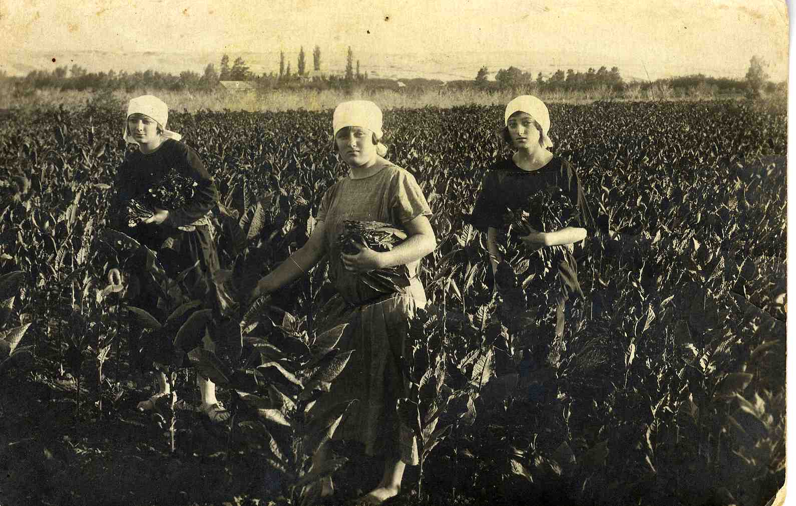 Tobacco field, Agriculture in Israel